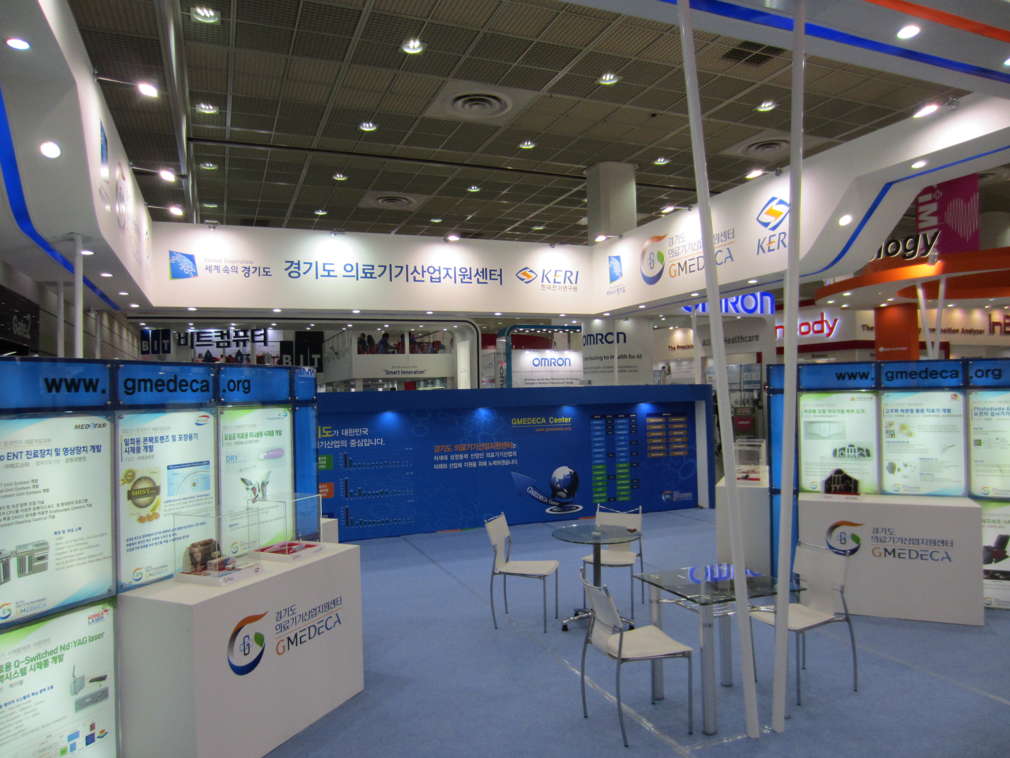 GMEDECA booth at KIMES